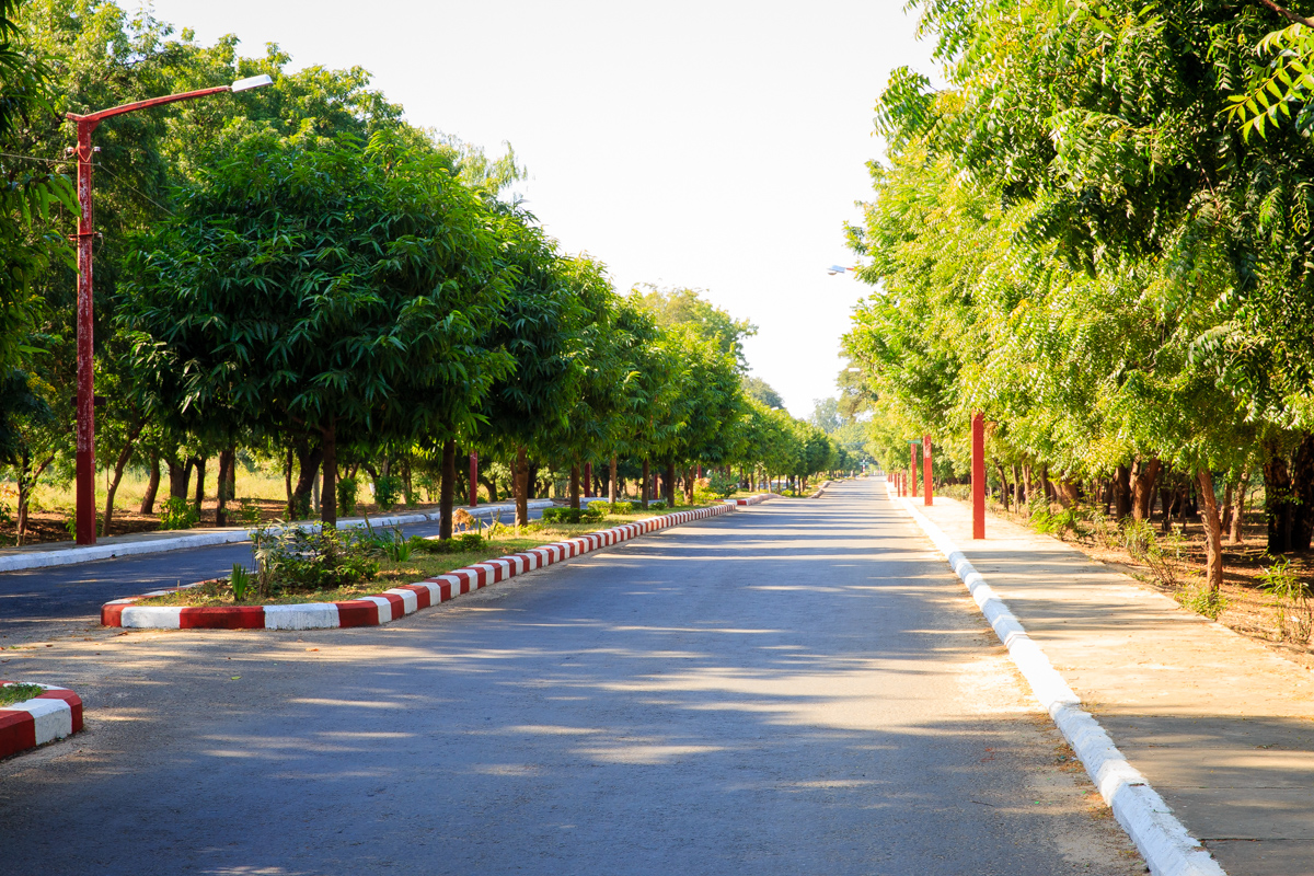 Anawrahta road. The main road, between neighbouring villages Old Bagan and Nyaung-U. Several major temple sites are located along this road.